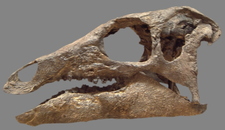 Reconstructed cast skull of "Camptosaurus dispar" from Bone Cabin Quarry West.